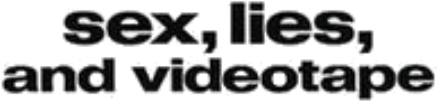 "Sex, Lies, and Videotapes" movie horizontal logo (black letters).